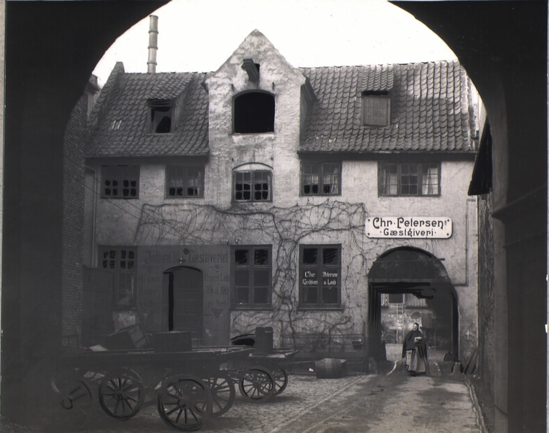 Tre Hjorter at Vestergade 12 in Copenhagen, Denmark